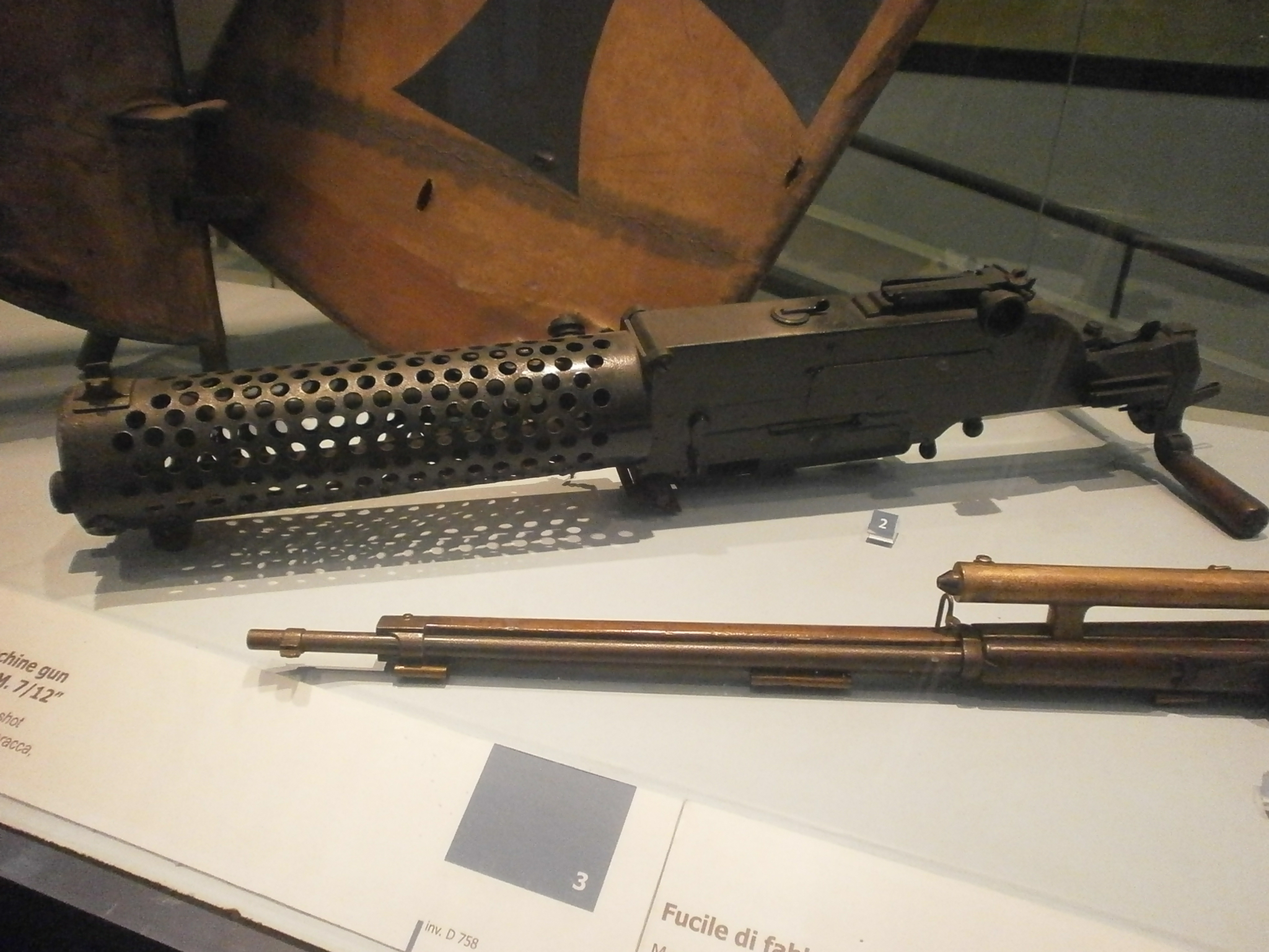 Rudder and machine gun M6 Schwarzlose M.7-12 at Museo della Scienza e della Tecnica in Milan